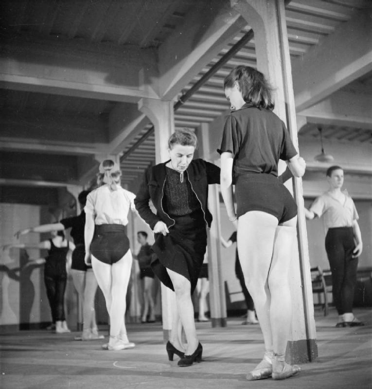 Ballet Goes To the Factory- Dance and Entertainment Organised by the Council For the Encouragement of Music and the Arts, England, 1943 Marie Rambert (centre), founder and director of the Ballet Rambert, demonstrates a new step to ballet dancer Sally Gilmour, during a rehearsal in the games room of the factory hostel. This rehearsal is taking place in the morning, whilst the factory workers are busy at their jobs.